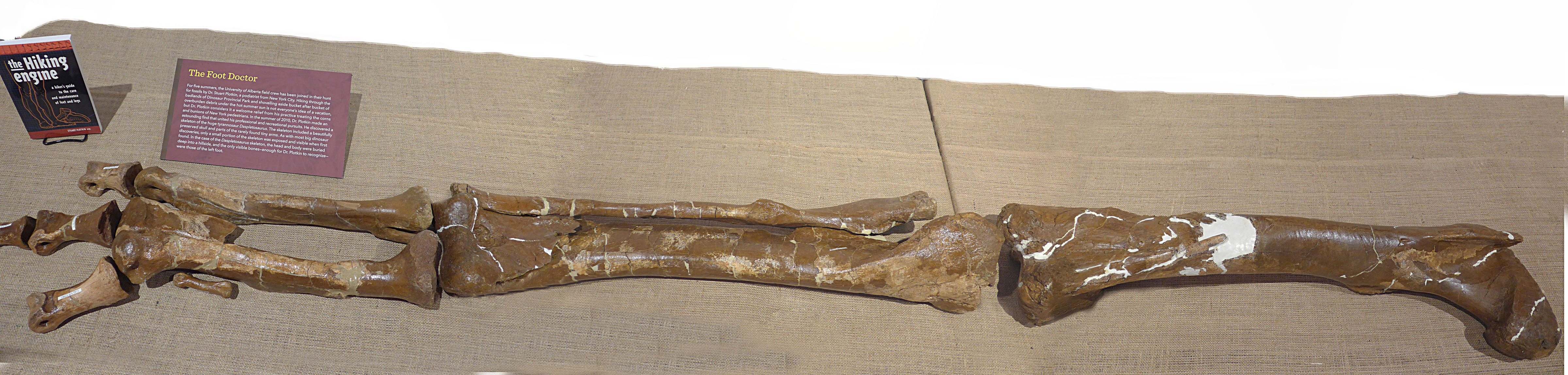 Daspletosaur limb University Alberta